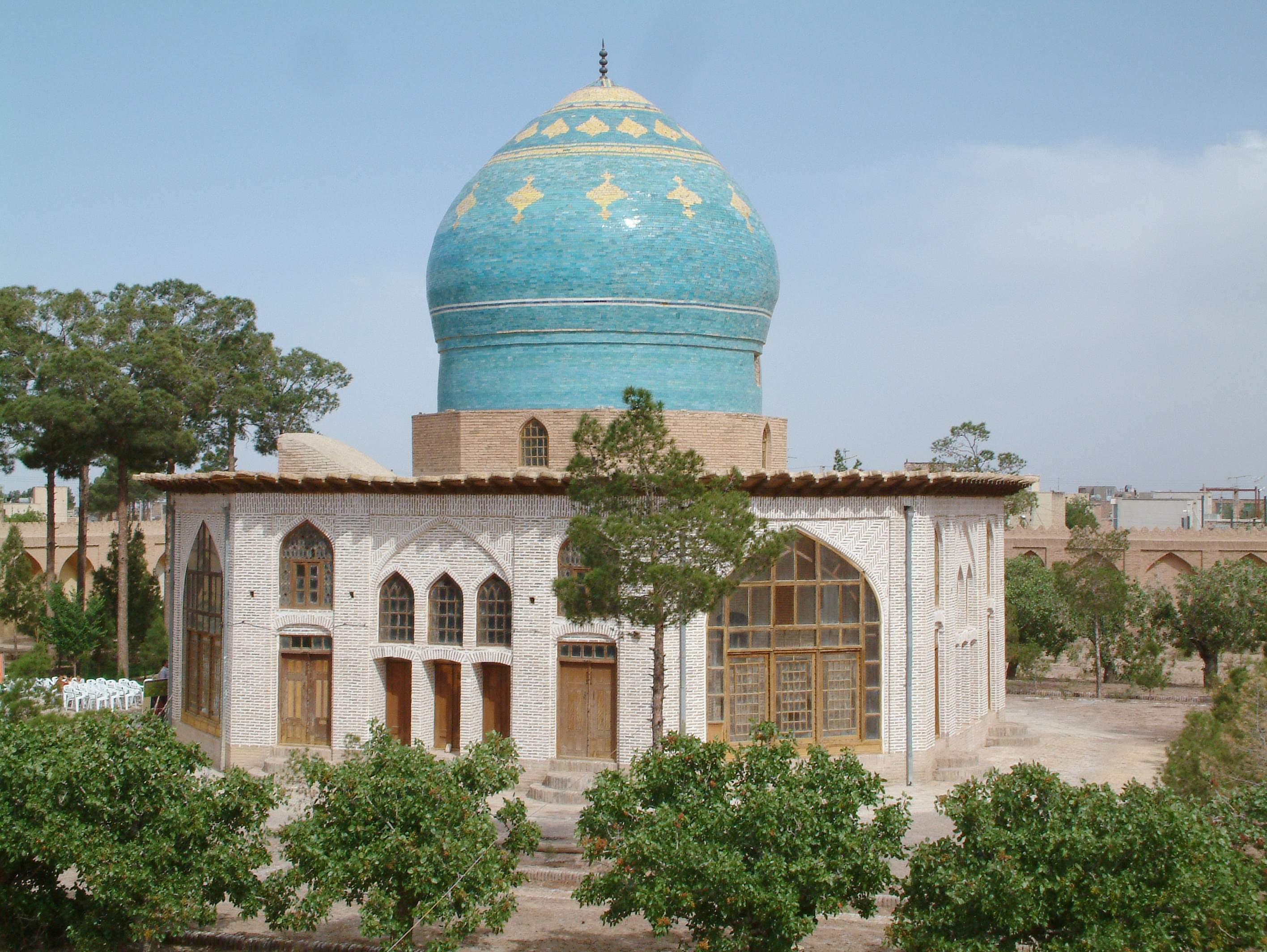 mosalla edifice